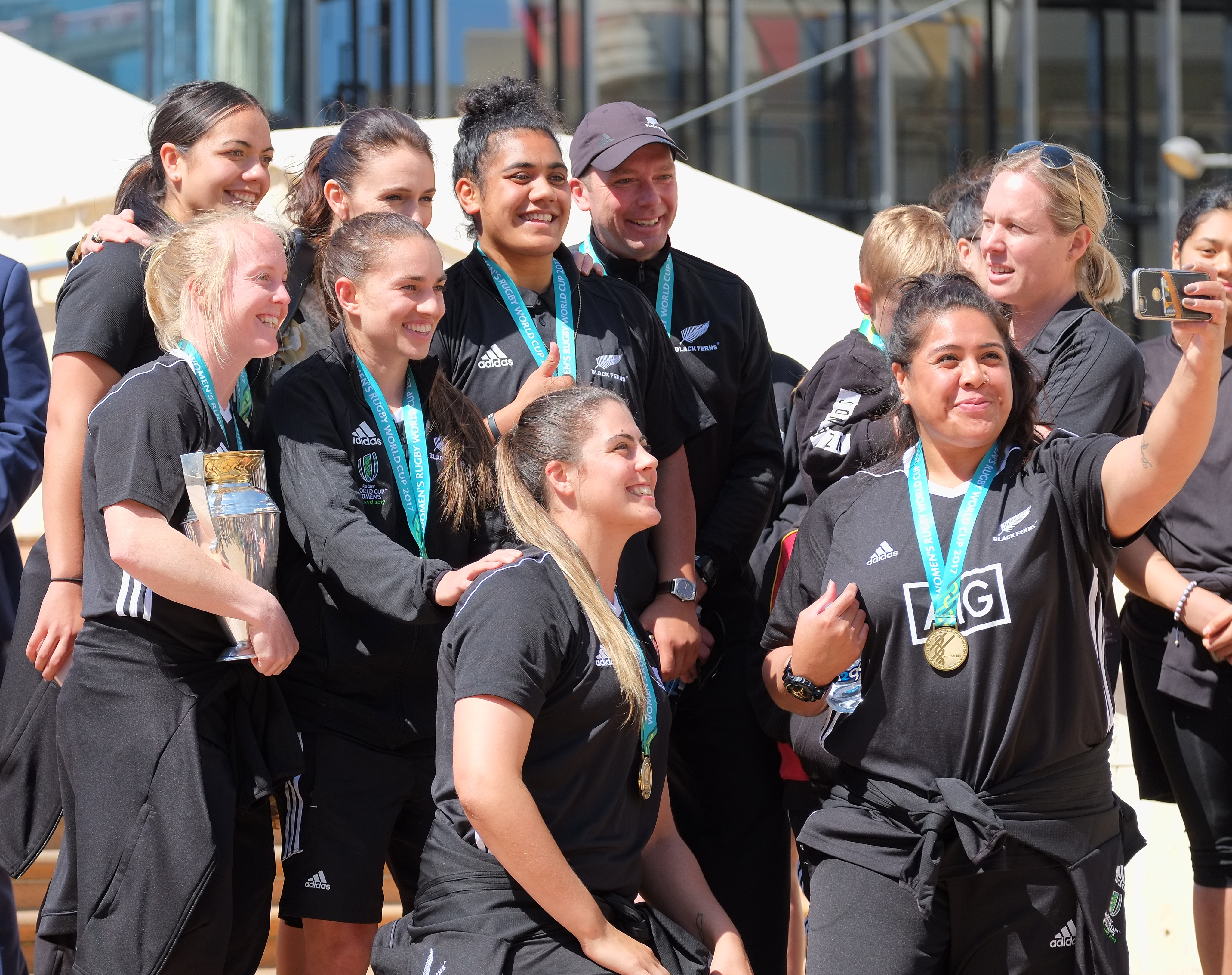 Black Ferns posing for a selfie with Labour party leader - from left to right (with medals): Kendra Cocksedge (holding WRWC trophy), Stacey Waaka behind her, Selica Winiata, Victoria Subritzky-Nafatali, Eloise Blackwell in the foreground, and Aldora Itunu (holding the up the camera-phone); Jacinda Ardern partly visible behind Selica Winiata